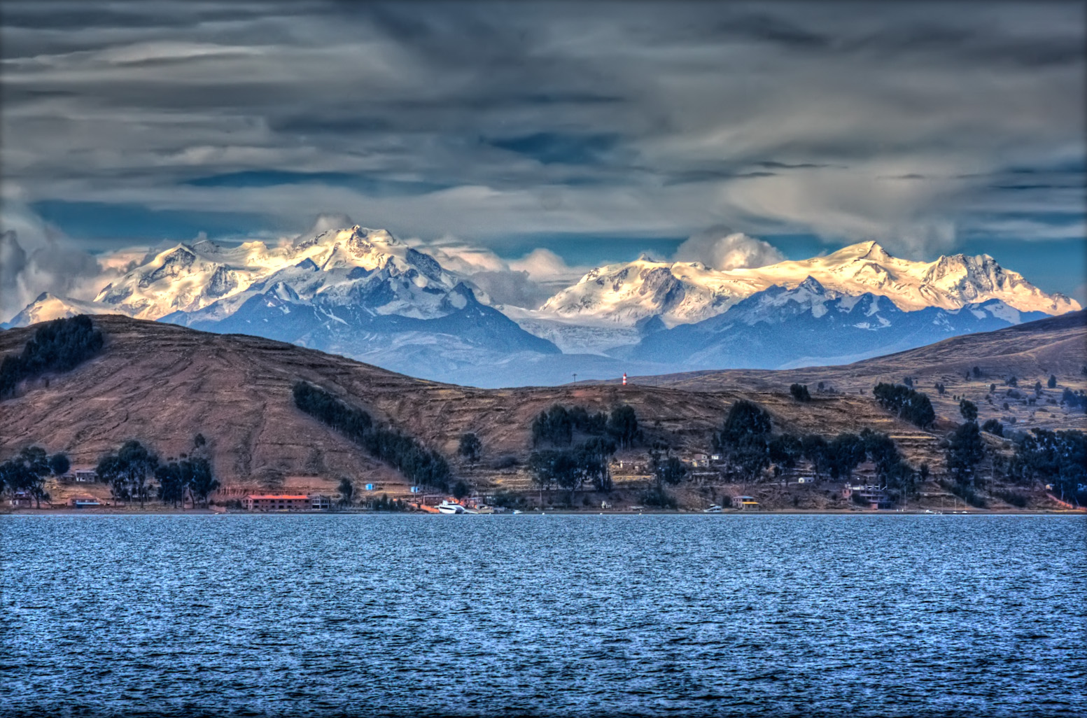 View of lake Titicaca from the Isla del Sol (Sun Island). From Isla del Sol it is a short boat ride to Copacabana, and then a five hour bus ride to La Paz. The scenery along the way is quite beautiful. Many beautiful mountains and scenery along the road. Nicer large. ISO 100, 109mm, f8.0, 1/250.